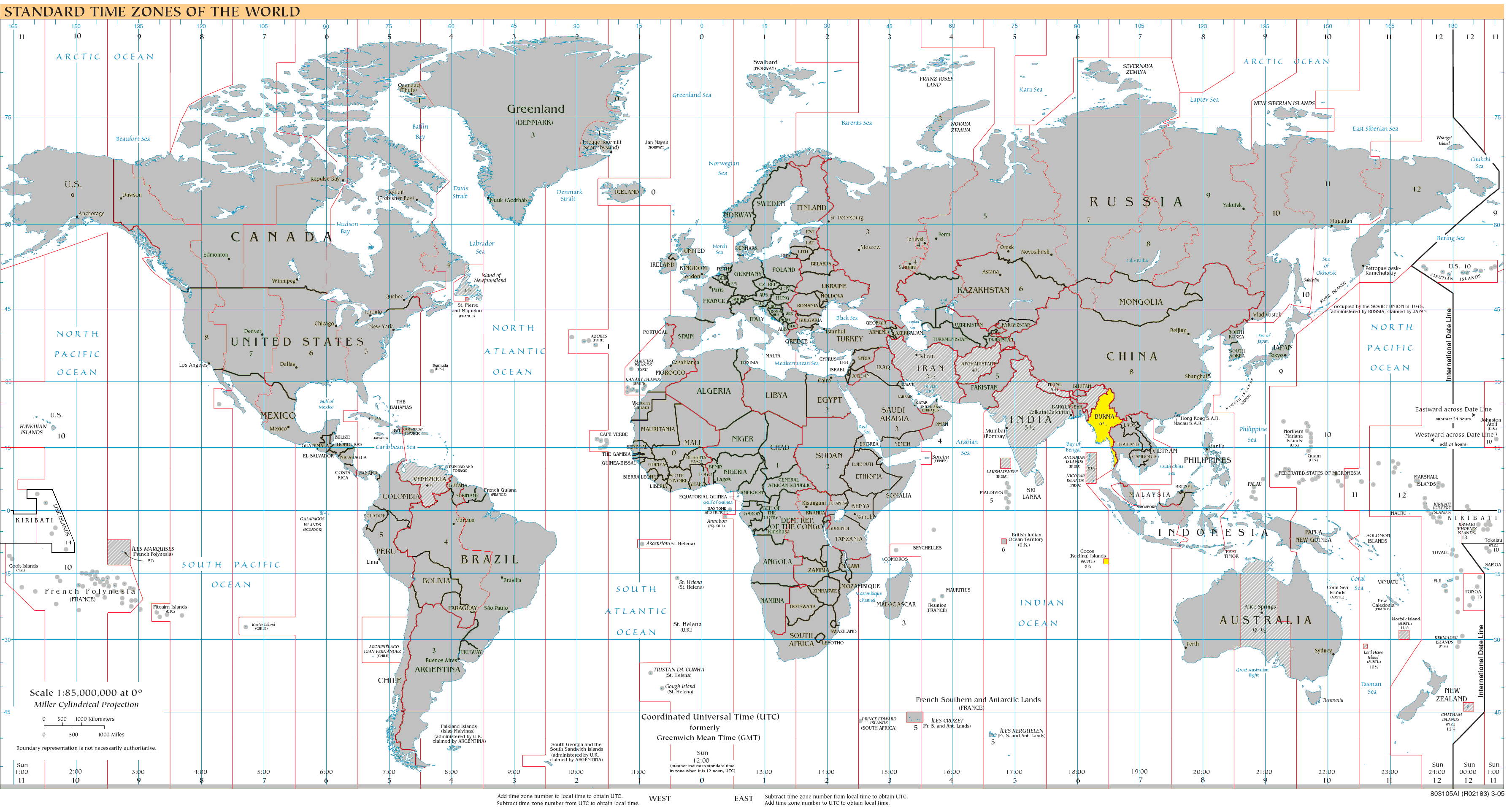 World map of time zones as of June 2008. Highlighting UTC+:30 Yellow: UTC+6:30 all year round